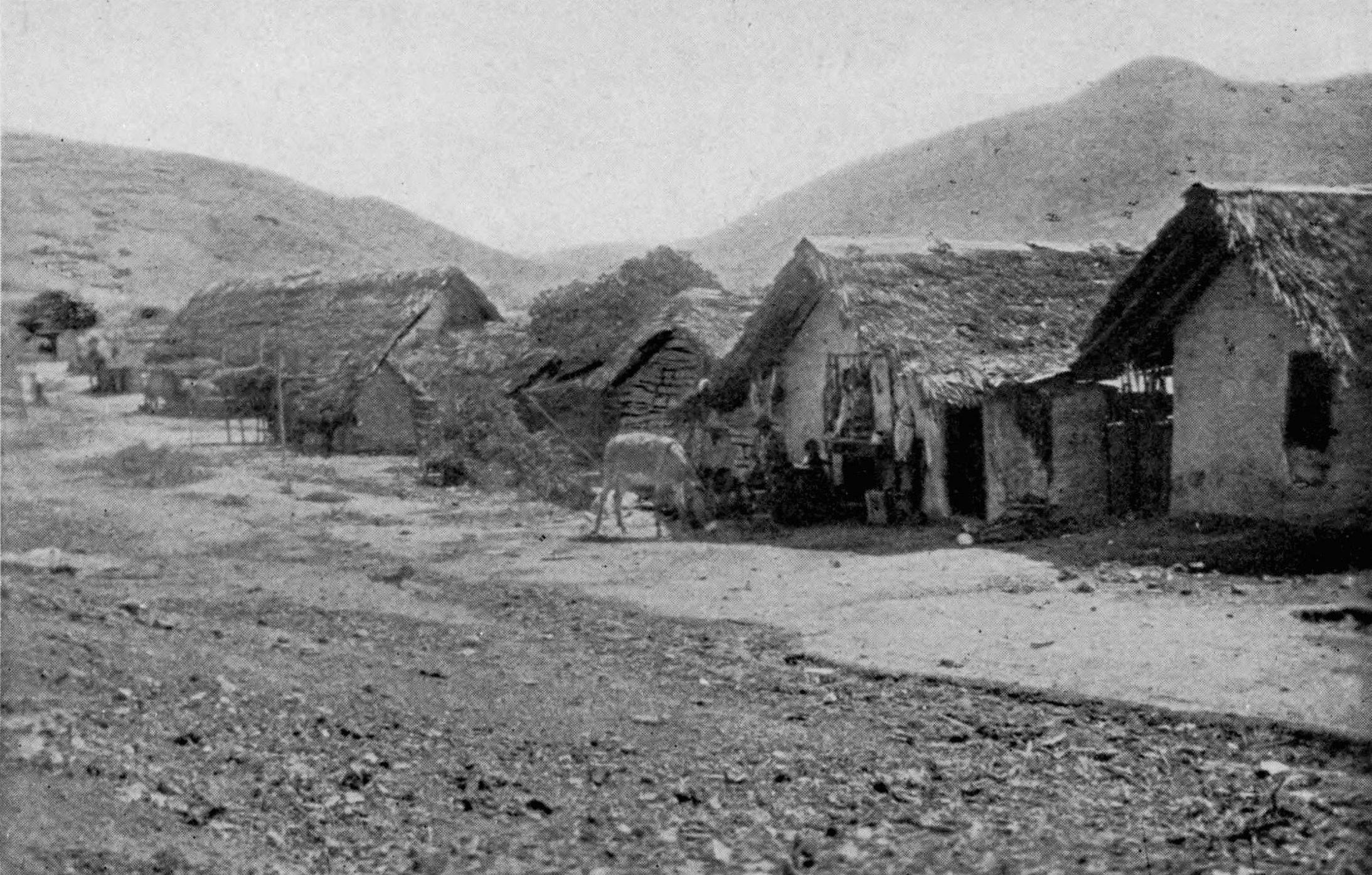 Residences of peons